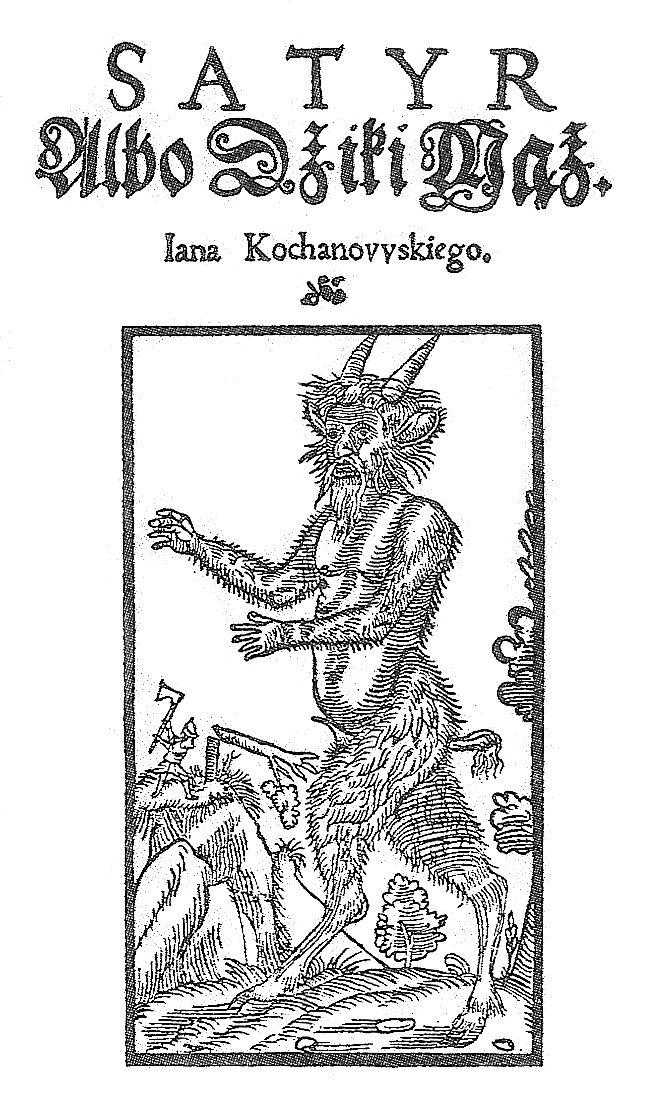 First page of Satyr albo Dziki mąż by Jan Kochanowski.